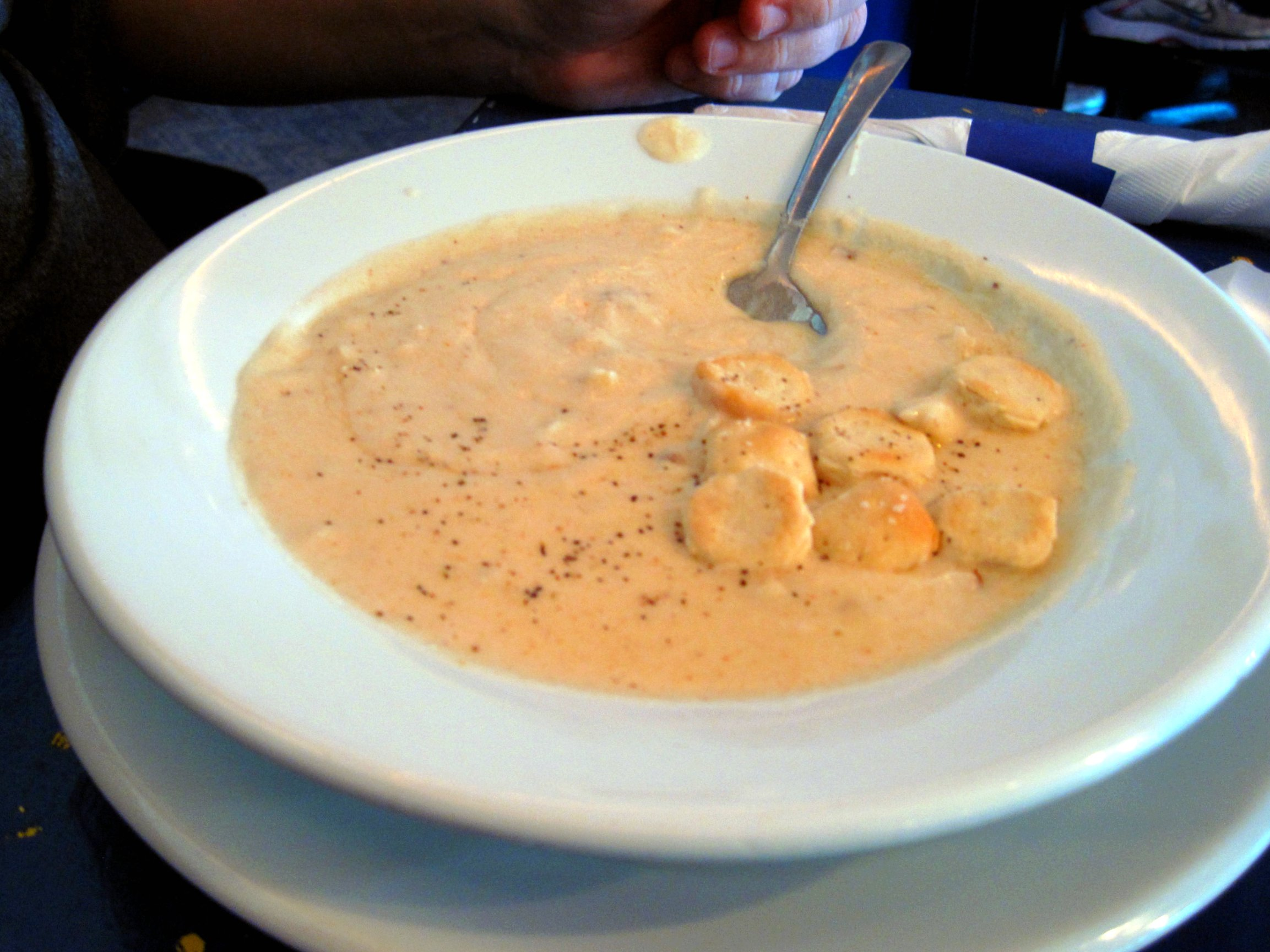 Michael's She-Crab Soup at Croakers, Inc. at Virginia Beach.